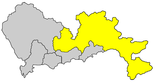 Location of Longgang District, Shenzhen